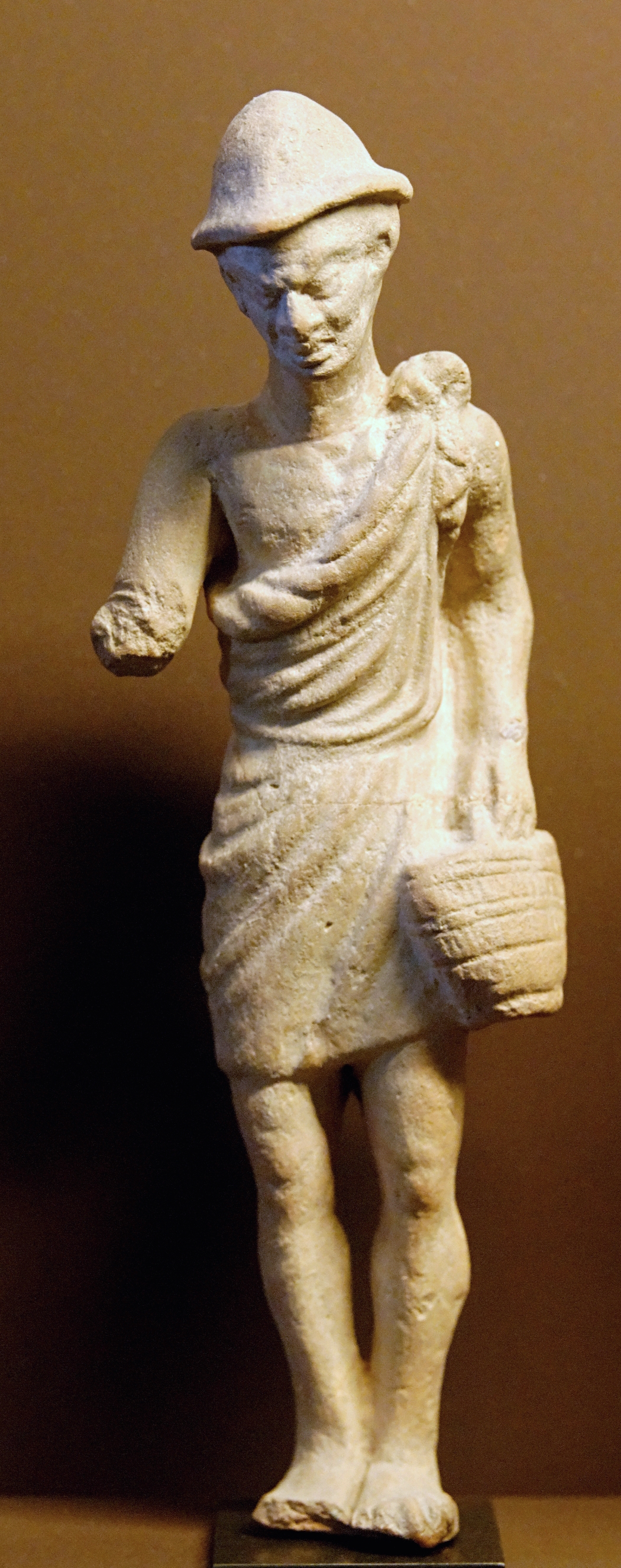 Peasant wearing a pilos (conical hat) and holding a basket. Grotesque terracotta figurine from Myrina, 1st century BC.